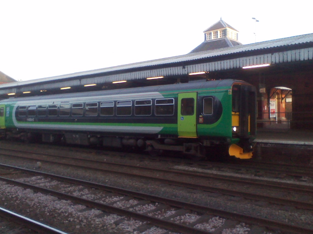 An unusual sight at Wellington (Shropshire) train station as a London Midland Class 153 arrives at Platform 2 on a 19:59 service to Shrewsbury.